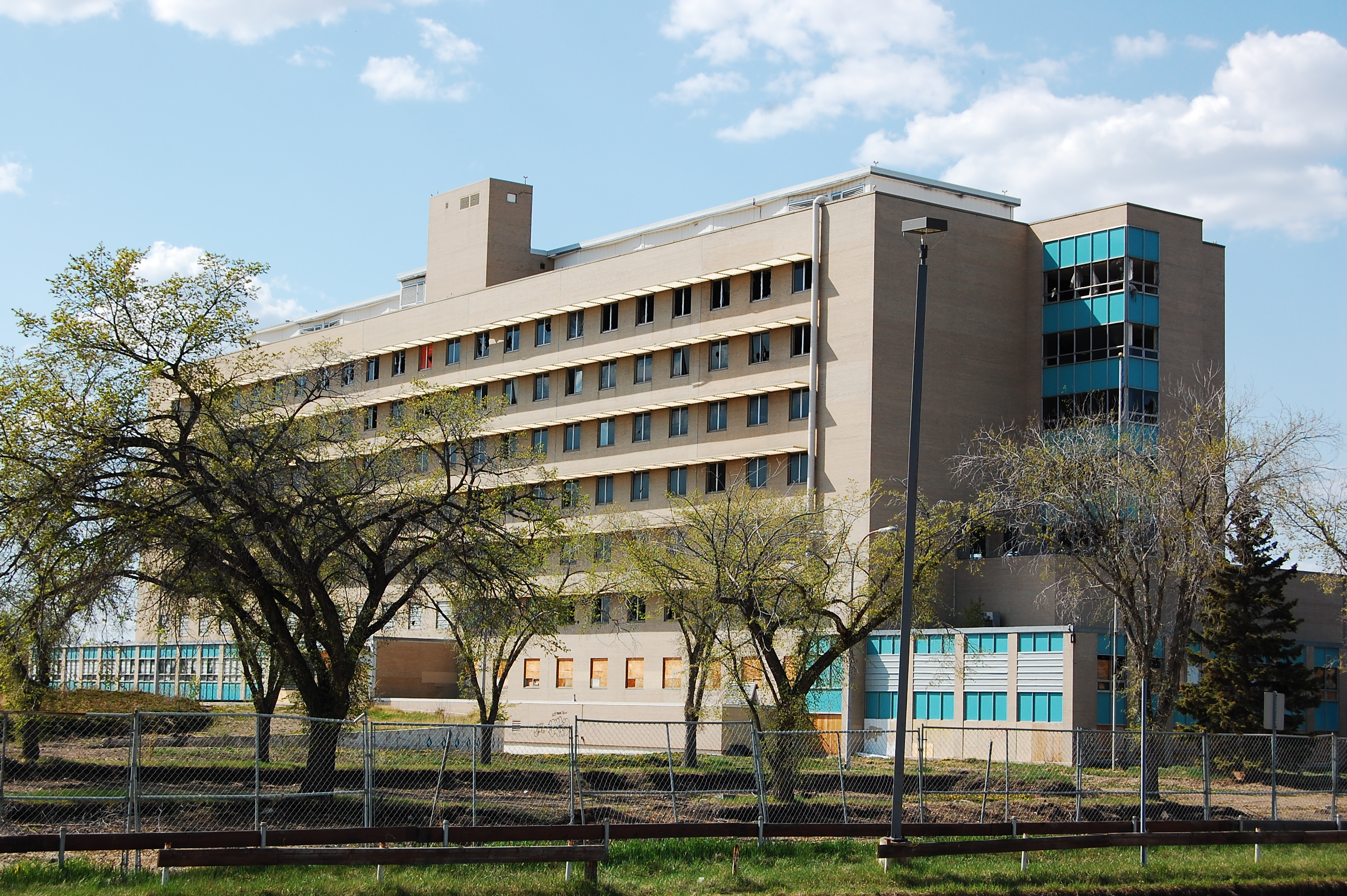 Abandoned Charles Camsell Hospital building in Edmonton Alberta.